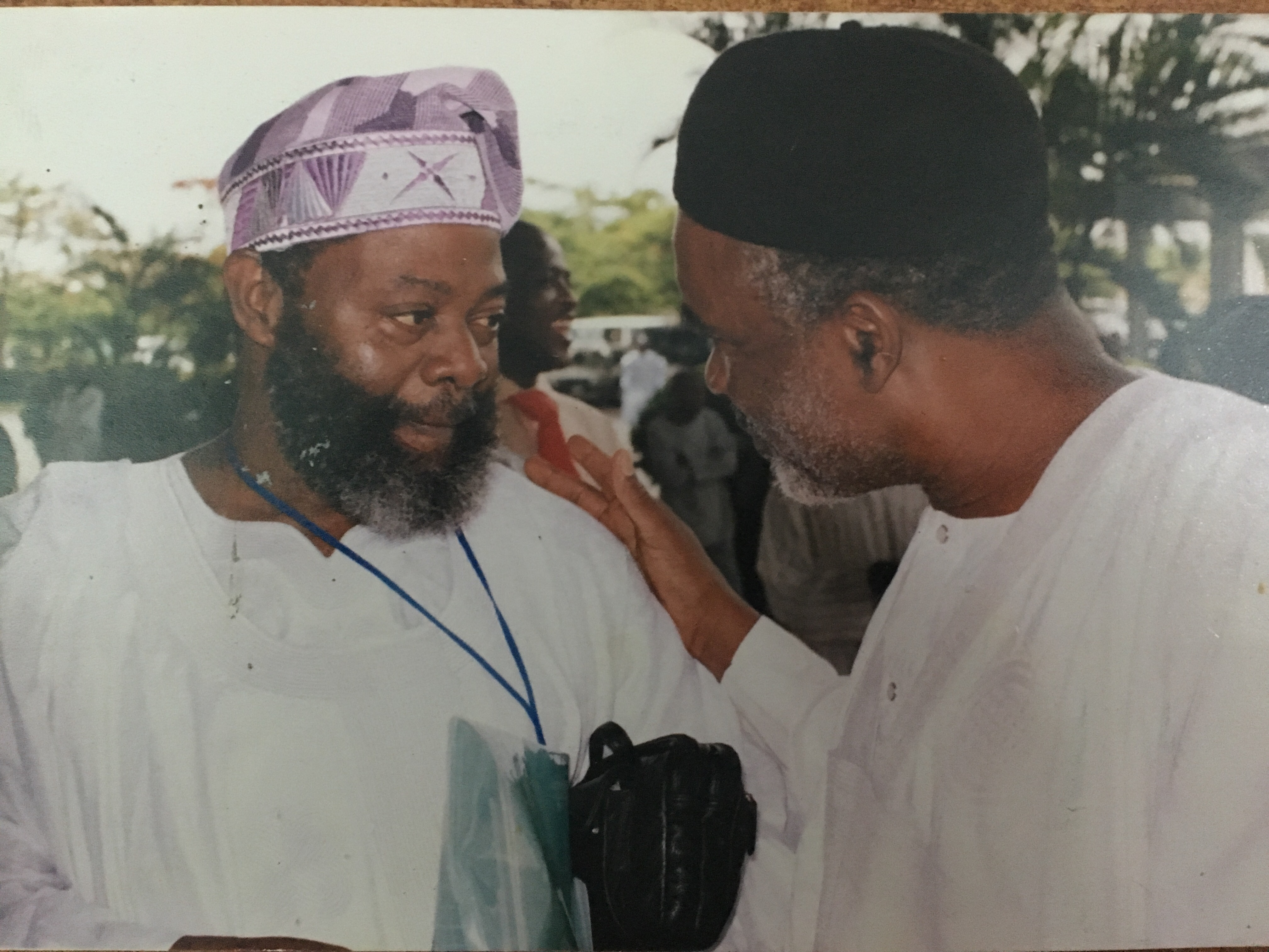 Sen Adefemi Kila & former Governor of Adamawa Iyako